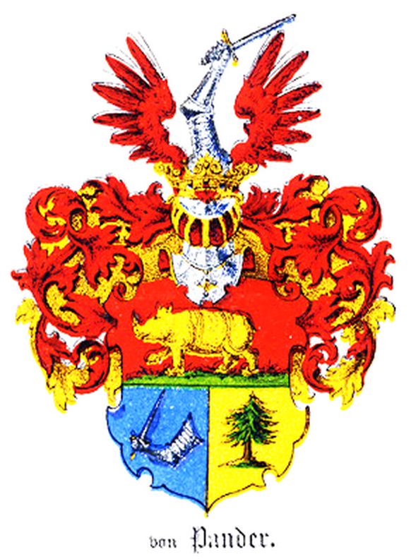 Coat of Arms of Pander family